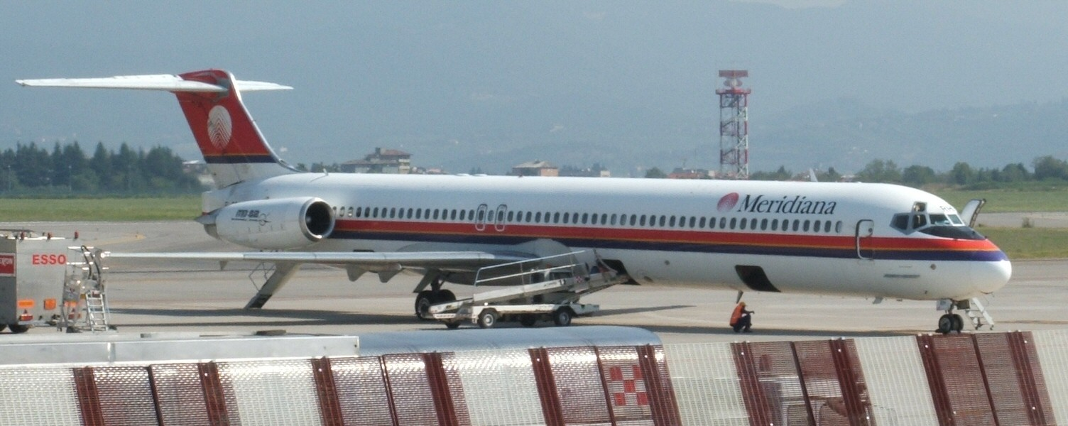 Meridiana MD-82 at Bergamo-Orio al Serio airport - Italy